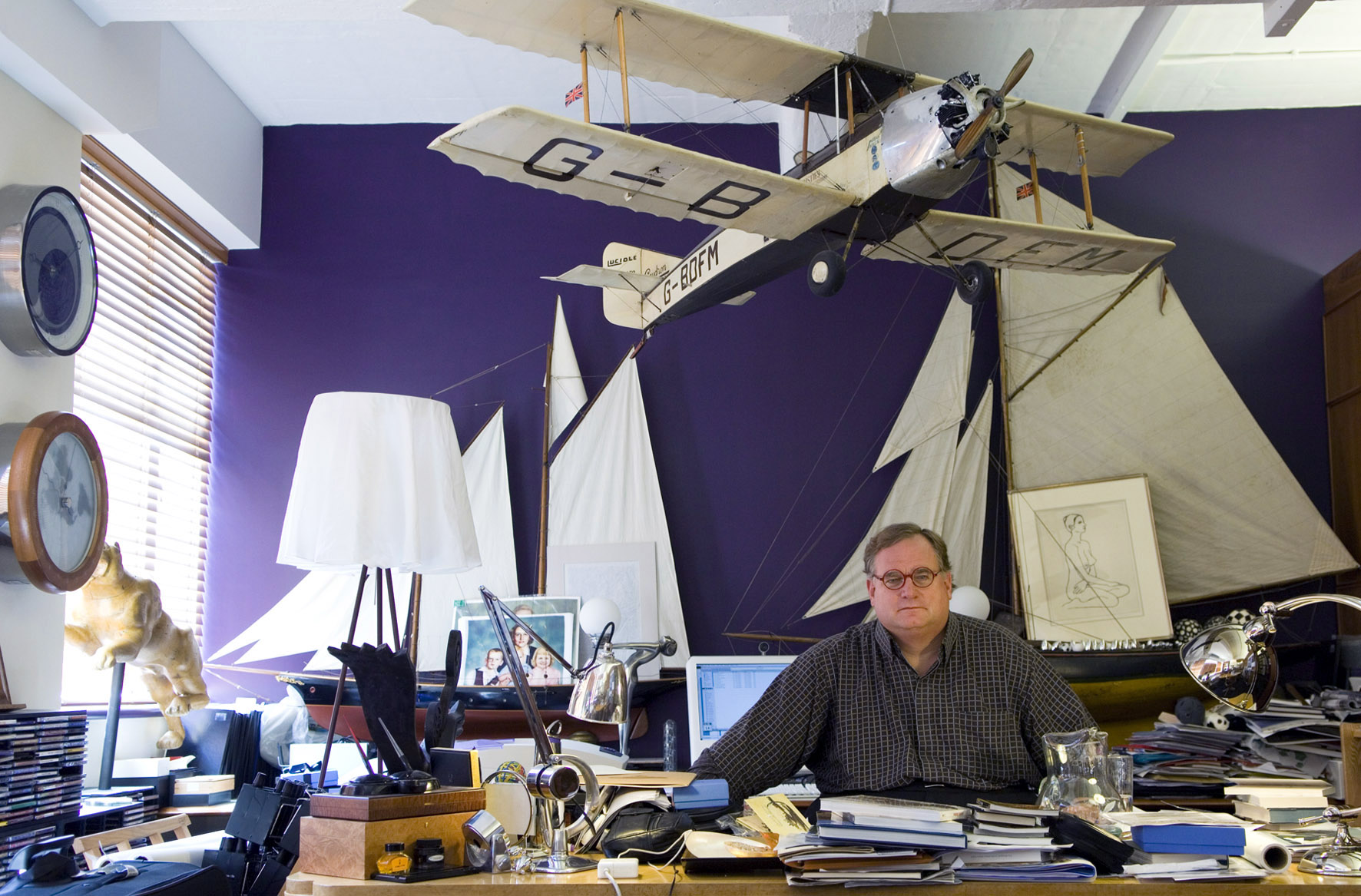 Architect Eric R Kuhne, seated in his office in Clerkenwell, London, 2007. On the wall are the clocks that he designed for Bluewater's town square and Darling Park's Star Court.